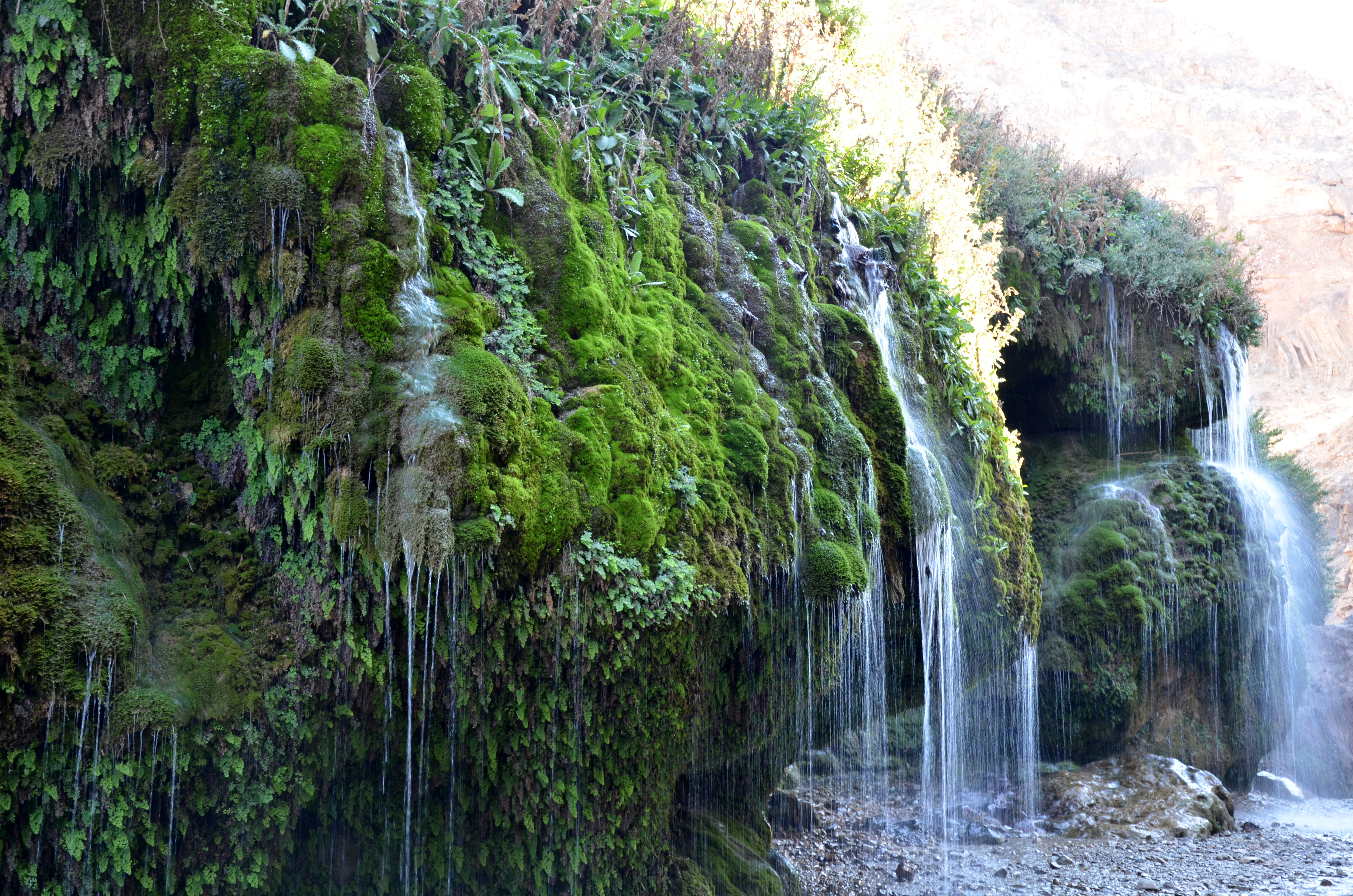 Aras Jolfa - Asiyab Kharabeh Waterfall